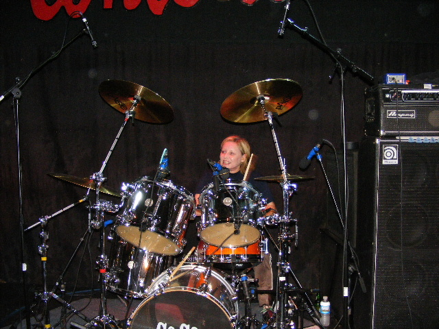 The Go-Go's at Antone's in Austin, TX. Gina Schock (drums)